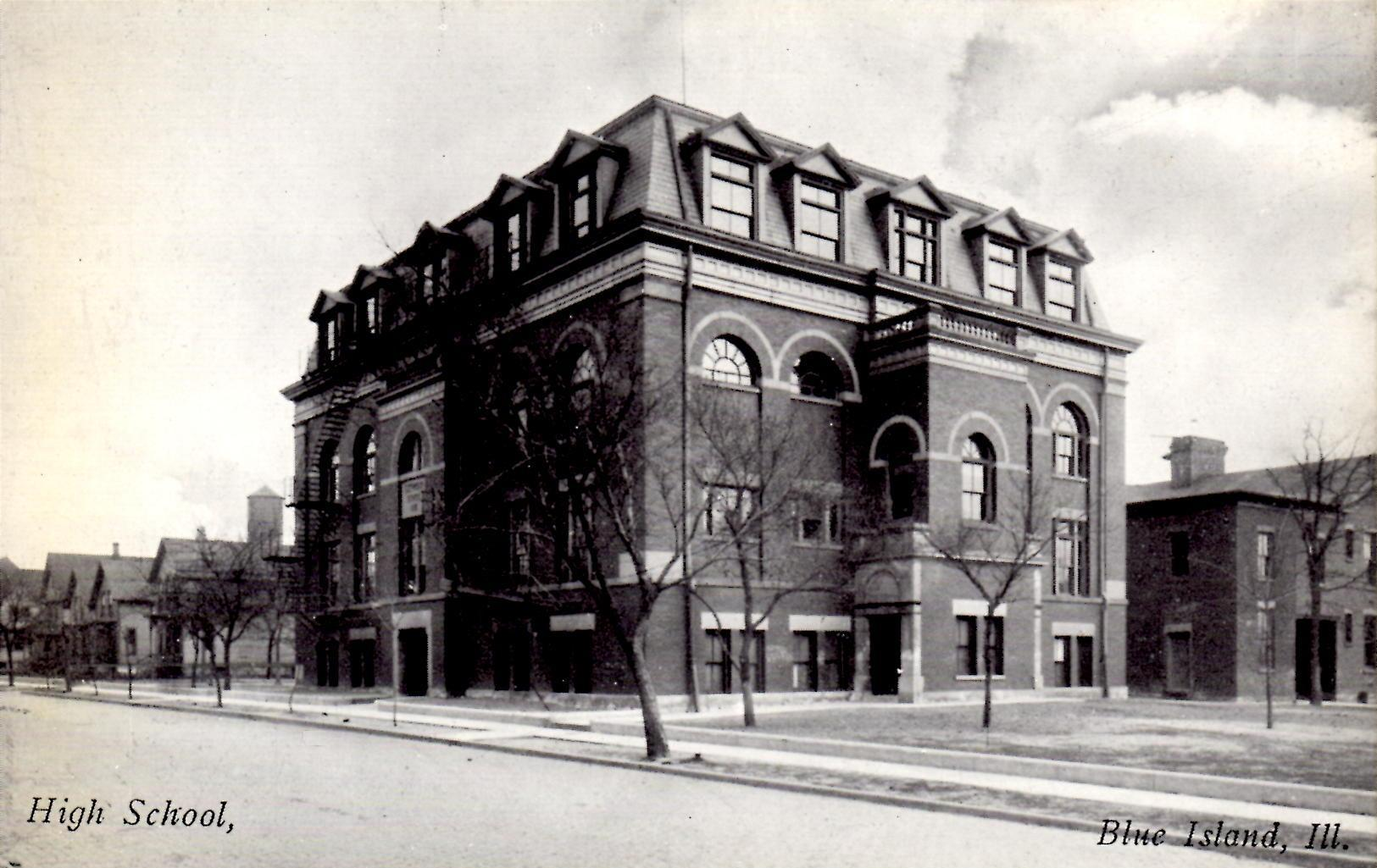 An image of the Seymour School in Blue Island, Il., 1892, with third floor addition, 1896. Beers, Clay & Dutton, architects of original building.